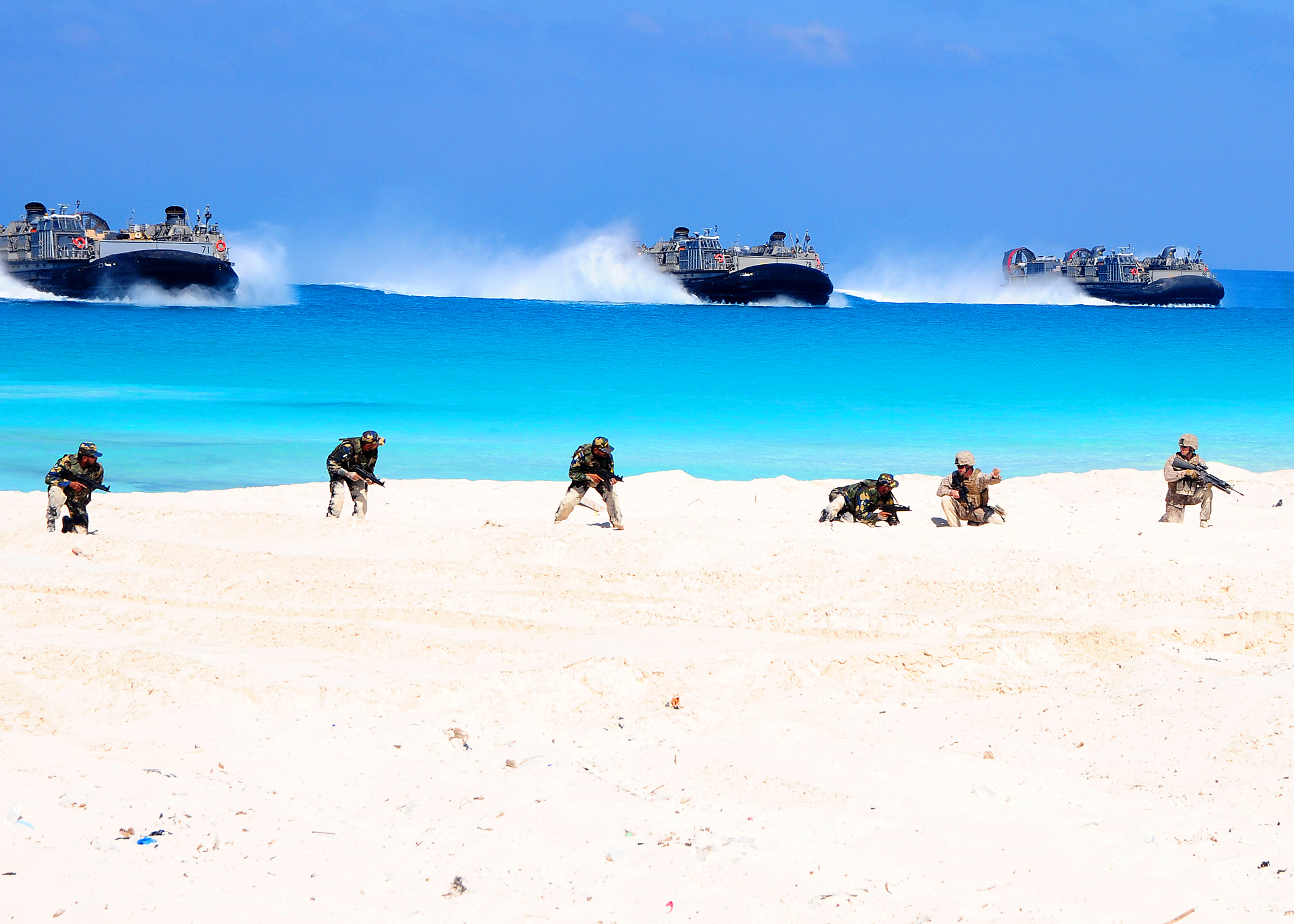 Marines assigned to the 22nd Marine Expeditionary Unit, along with Marines from Kuwait and Pakistan, conduct an amphibious assault demonstration during exercise Bright Star 2009. The multinational exercise is designed to improve readiness, interoperability, and strengthen military and professional relationships among U.S., Egyptian and other coalition forces.